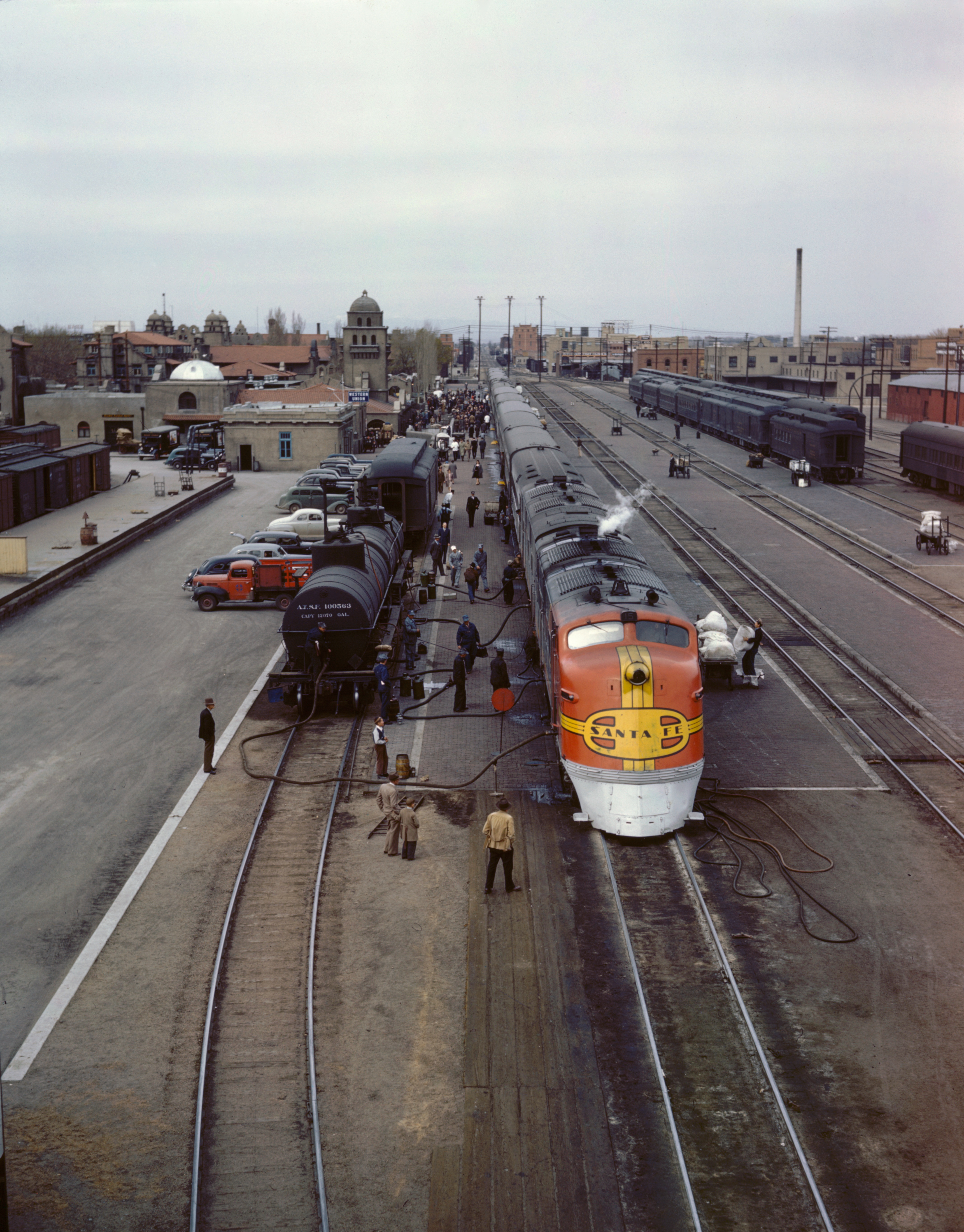 Santa Fe R.R. streamliner, the "Super Chief," being serviced at the depot, Albuquerque, N[ew] Mex[ico]. This is a retouched version.